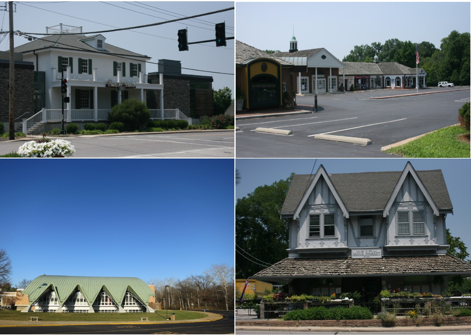 Ladue, Missouri montage